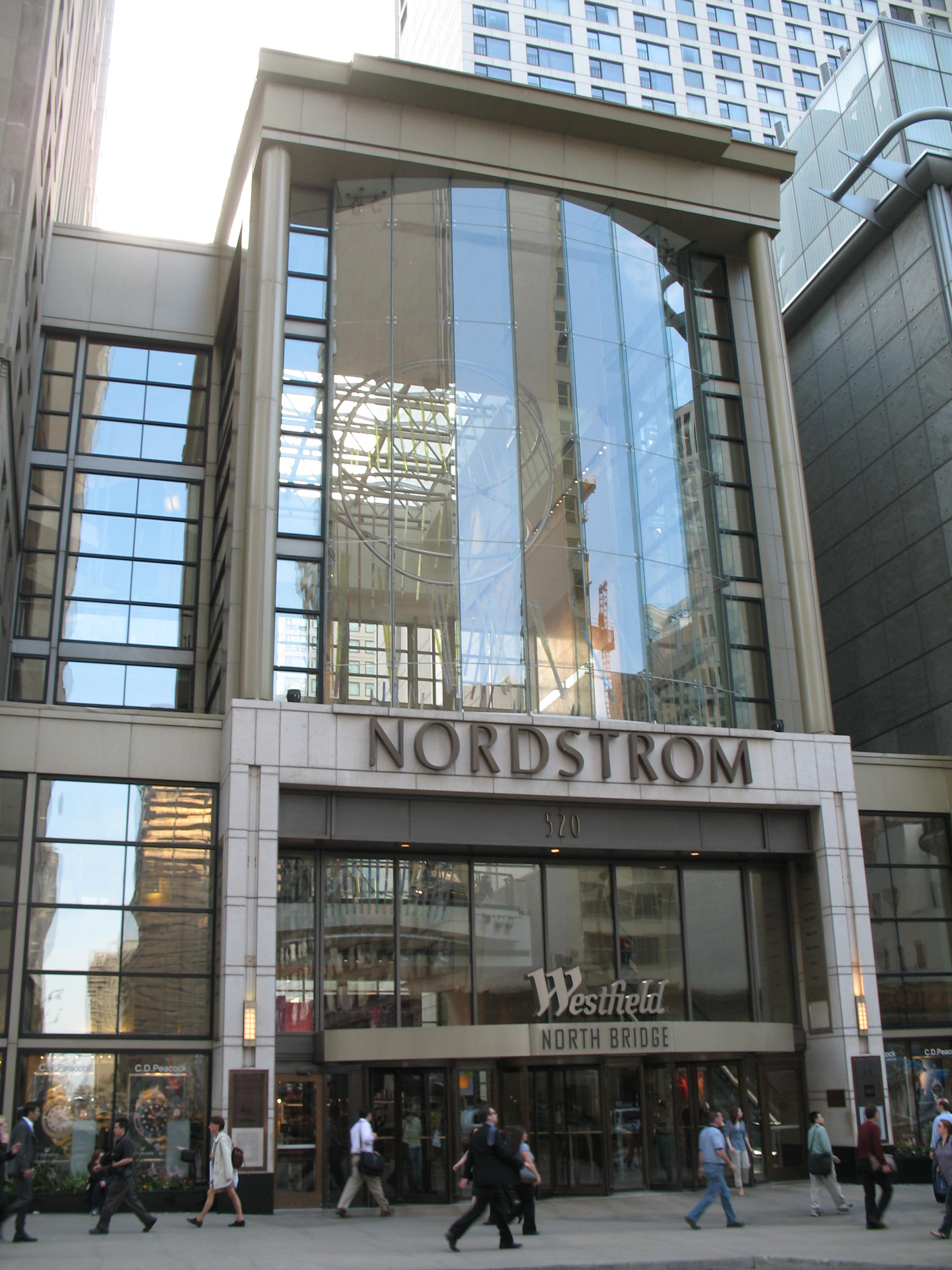 The Shops at North Bridge Entrance.